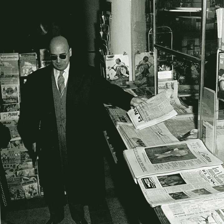 Sadok_Mokaddem in the Tunis airport. 1958